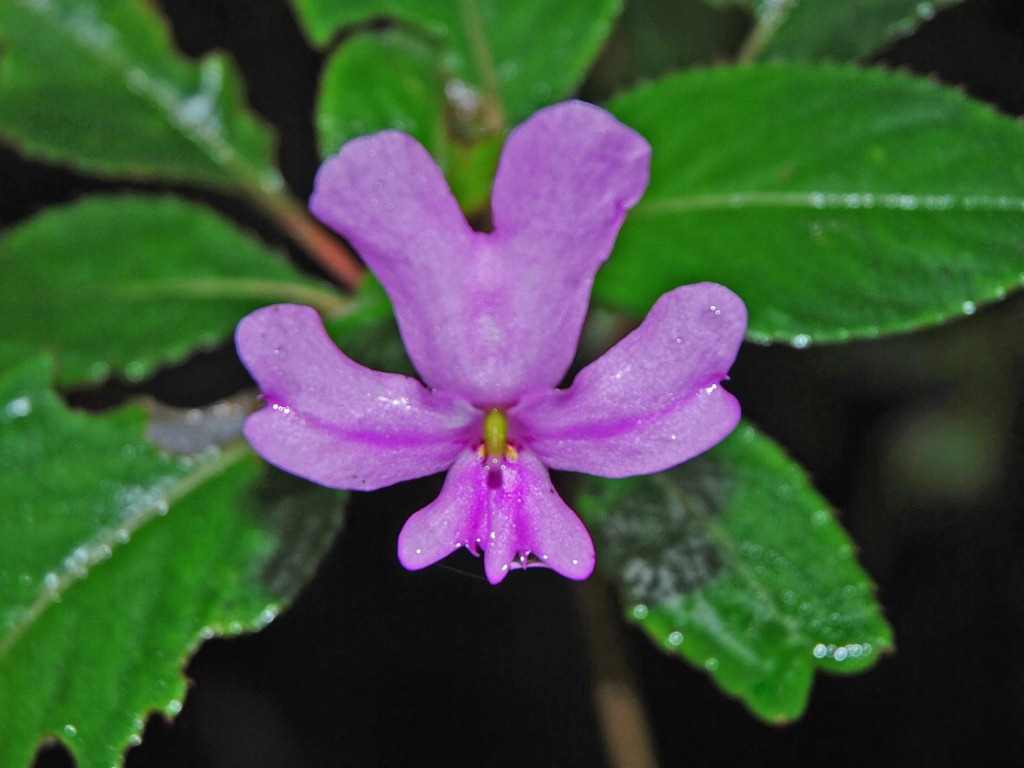 Impatiens kinabaluensis - [Kinabalu National Park], Mt. Kinabalu, Borneo